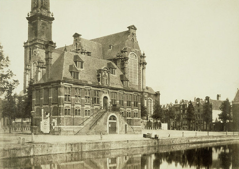 The Westerhal on the Keizersgracht in Amsterdam. The Westerkerk can be seen in the background.